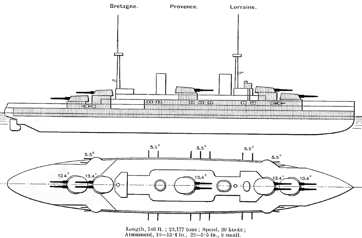 Sketch of the French Bretagne class battleships.